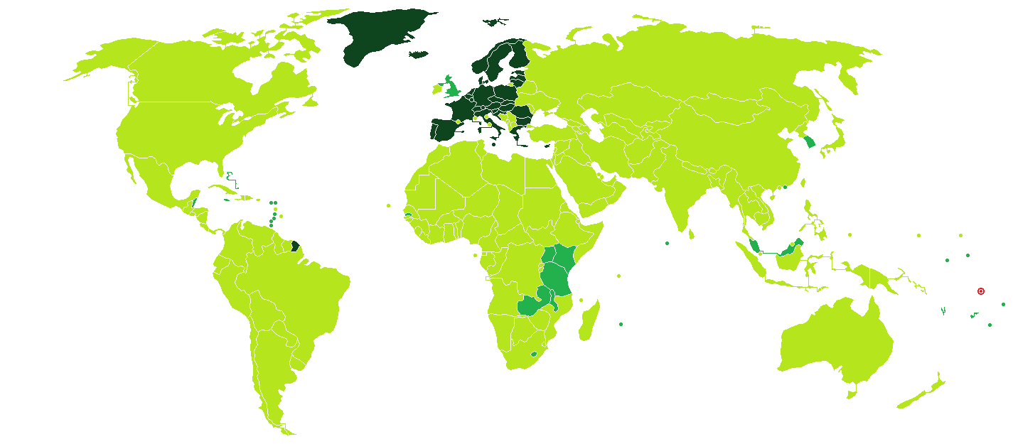 Visa policy of Tuvalu Tuvalu Visa-free access Free visa on arrival Visa on arrival